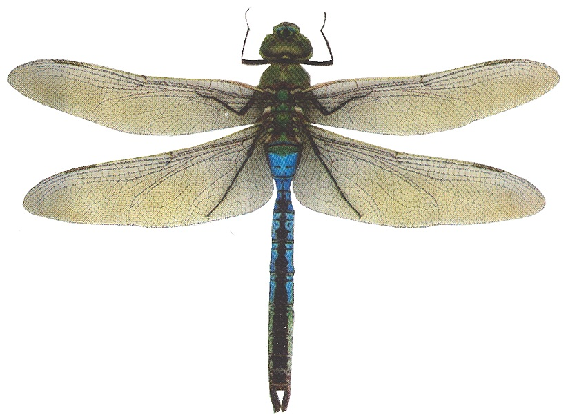 Created by user...scanned and procesed by user.